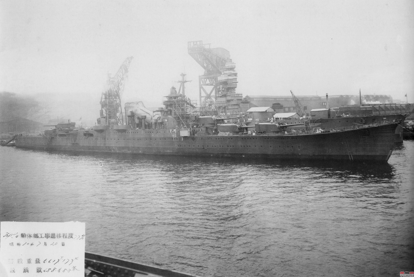 Japanese heavy cruiser Suzuya during construction in the in Yokosuka Navy Yard.